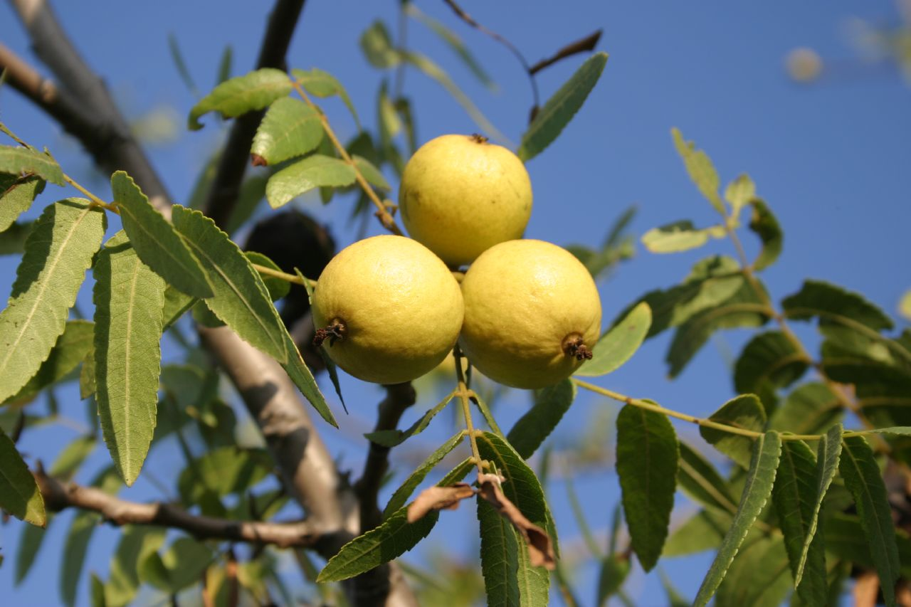 California Black Walnut Juglans californica